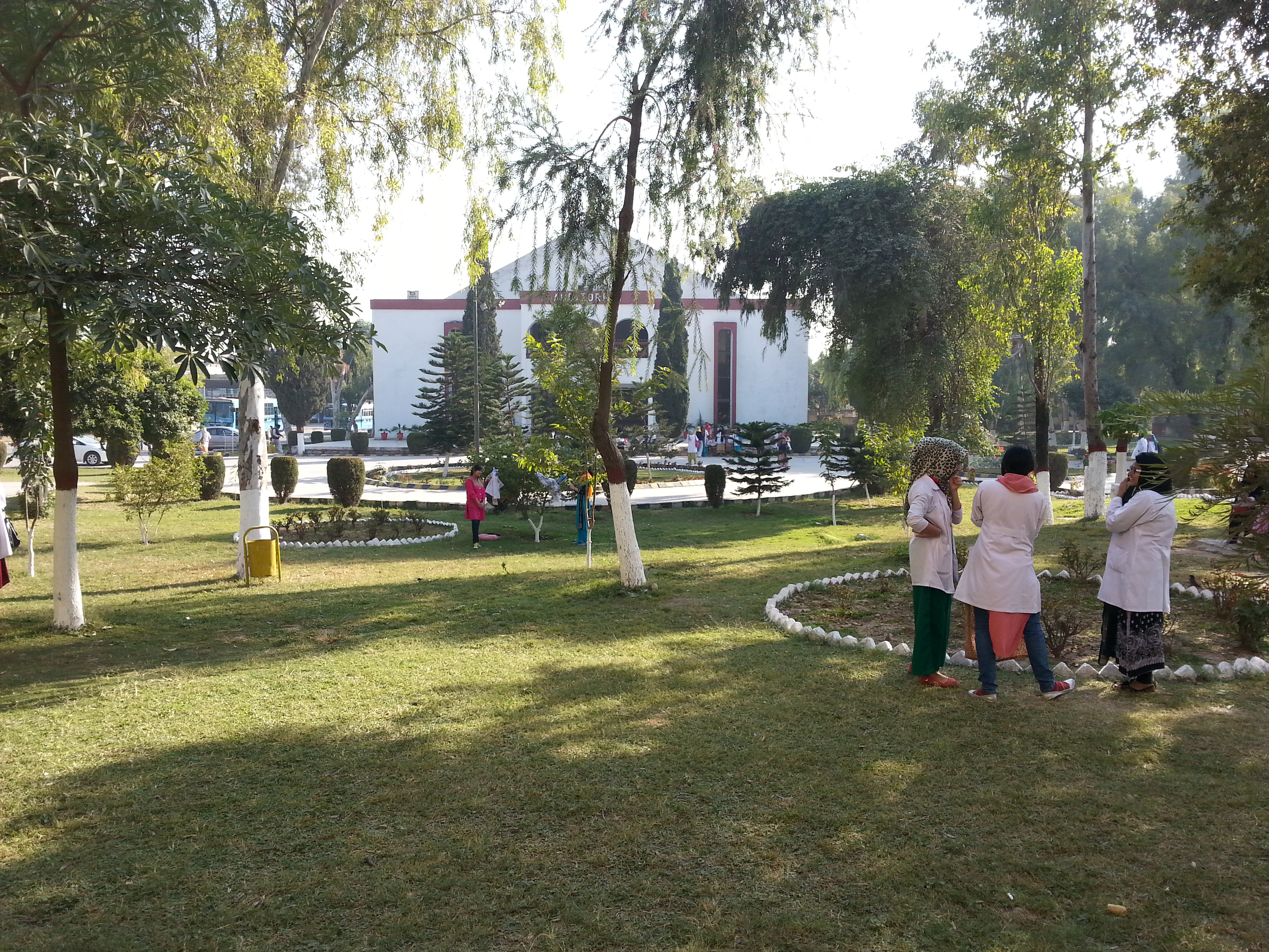 Old Campus Ground in front of Auditorium